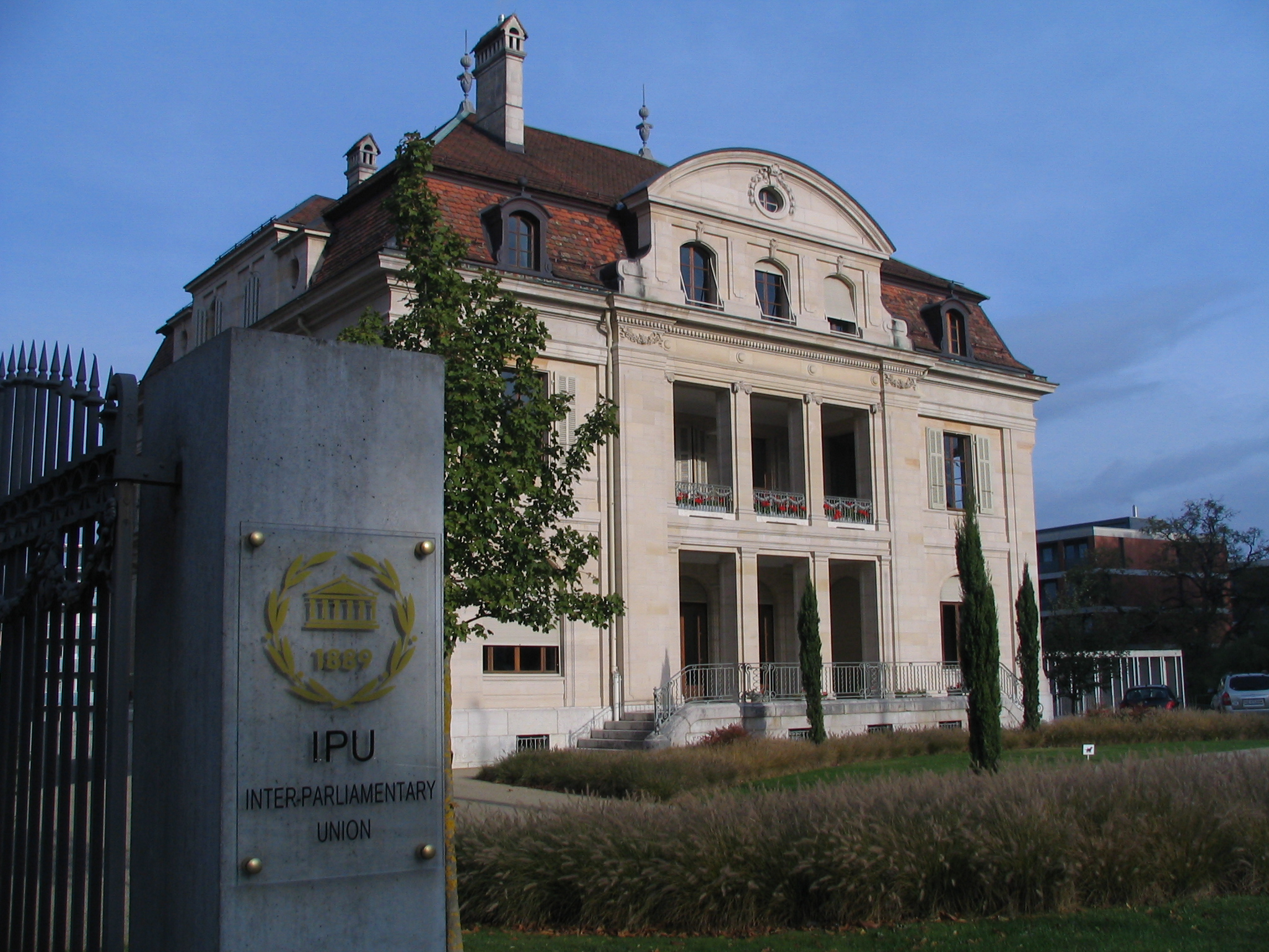 Interparlamentary Union (IPU), Secretariat in Geneva (Switzerland)